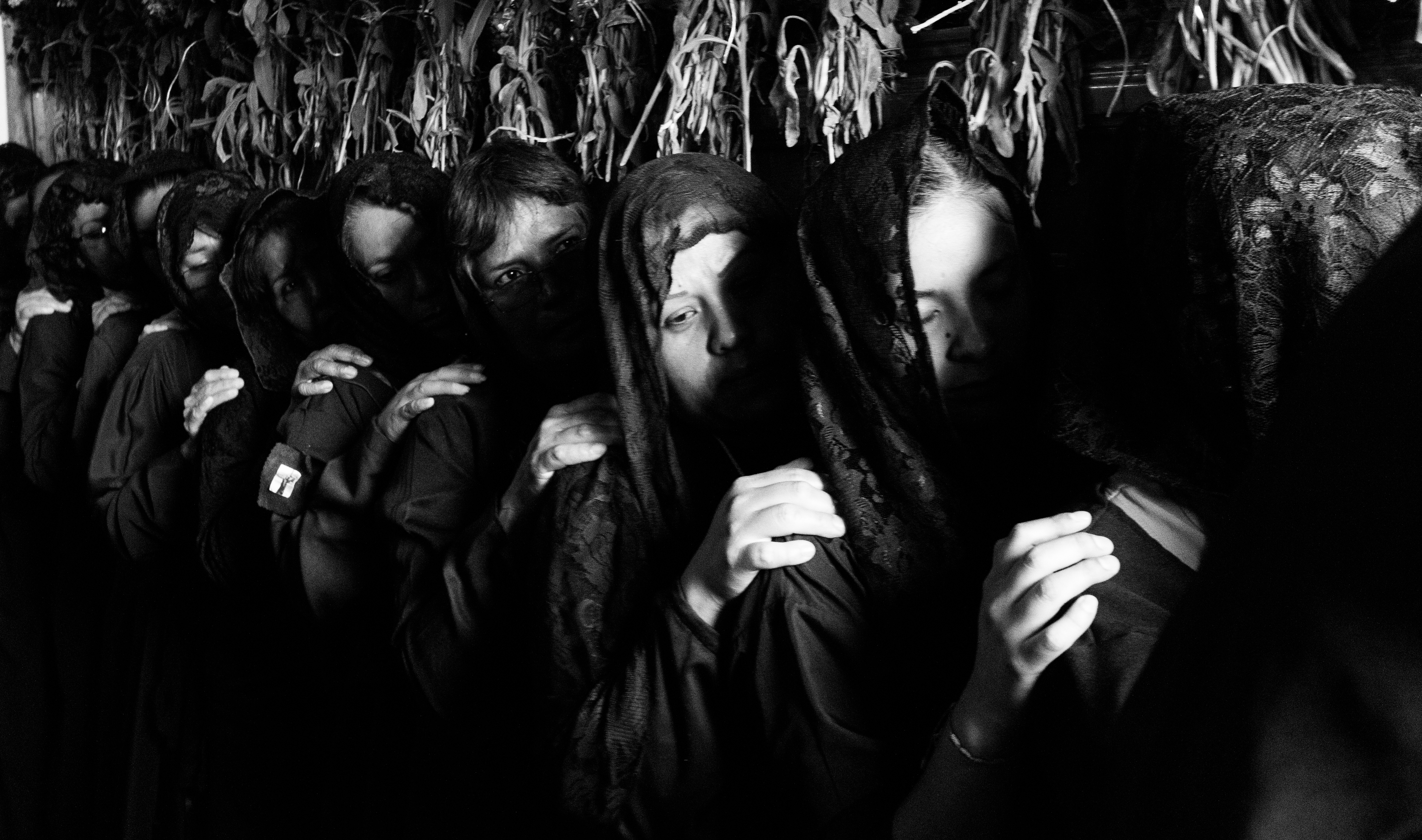 Procession during Easter Friday in Santa Ana Guanajuato, Mexico.